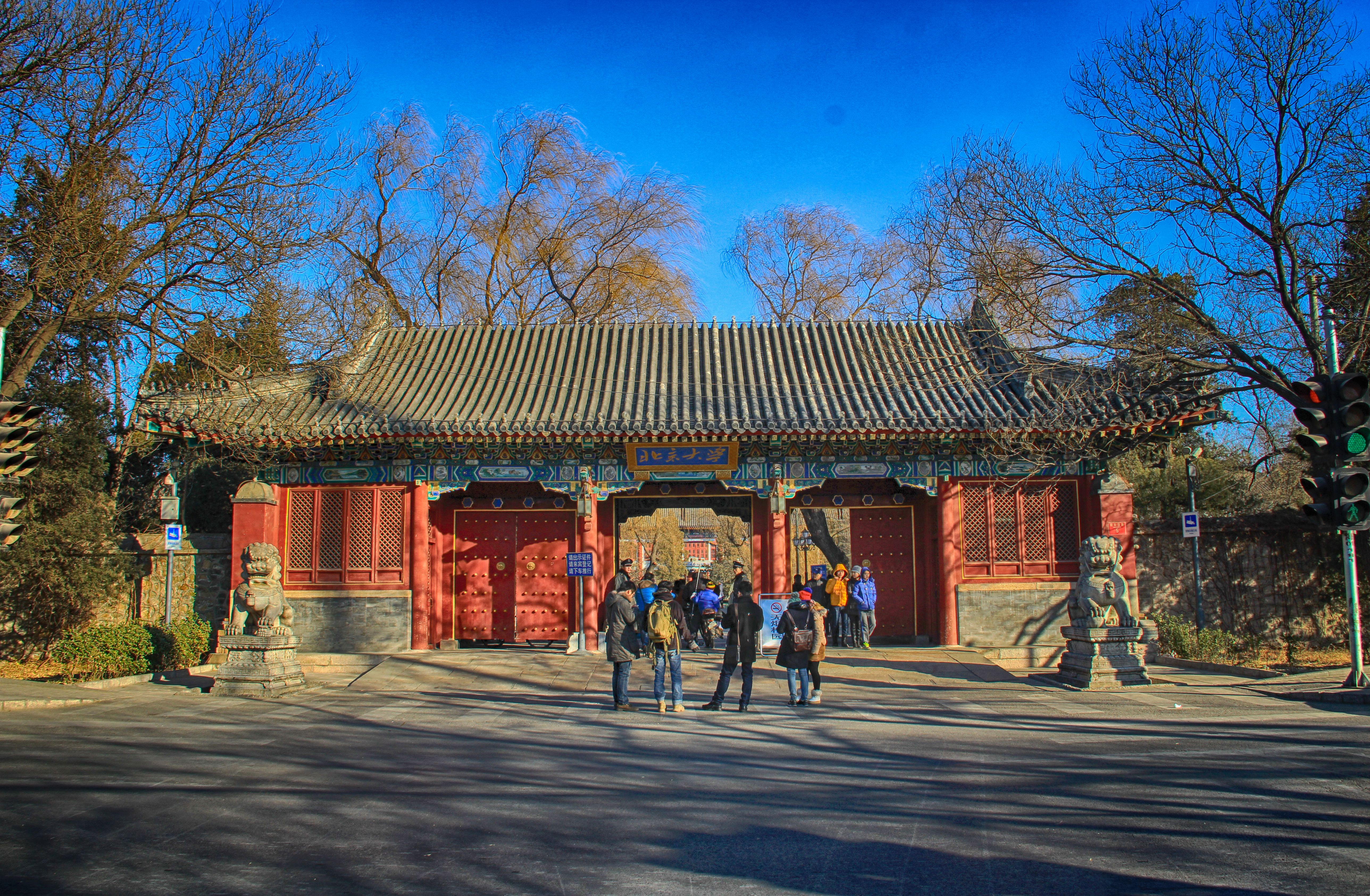 West Gate of Peking University.